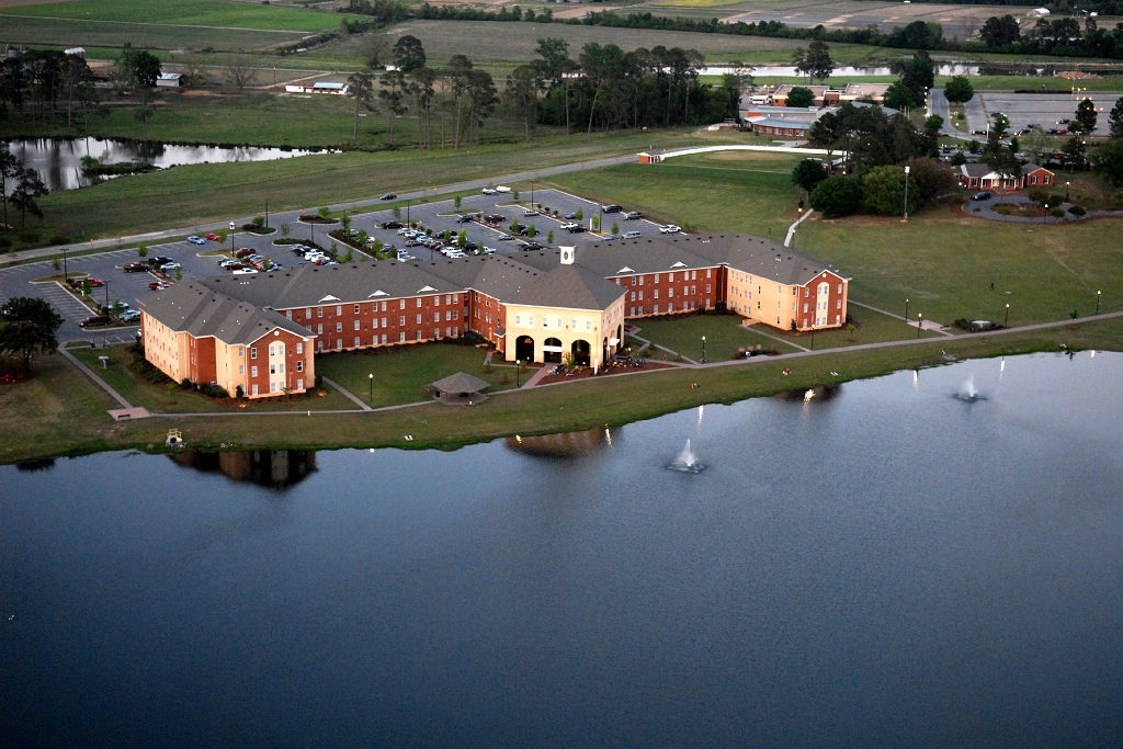 ABAC Lakeside Apartments on the north shore of Lake Baldwin.